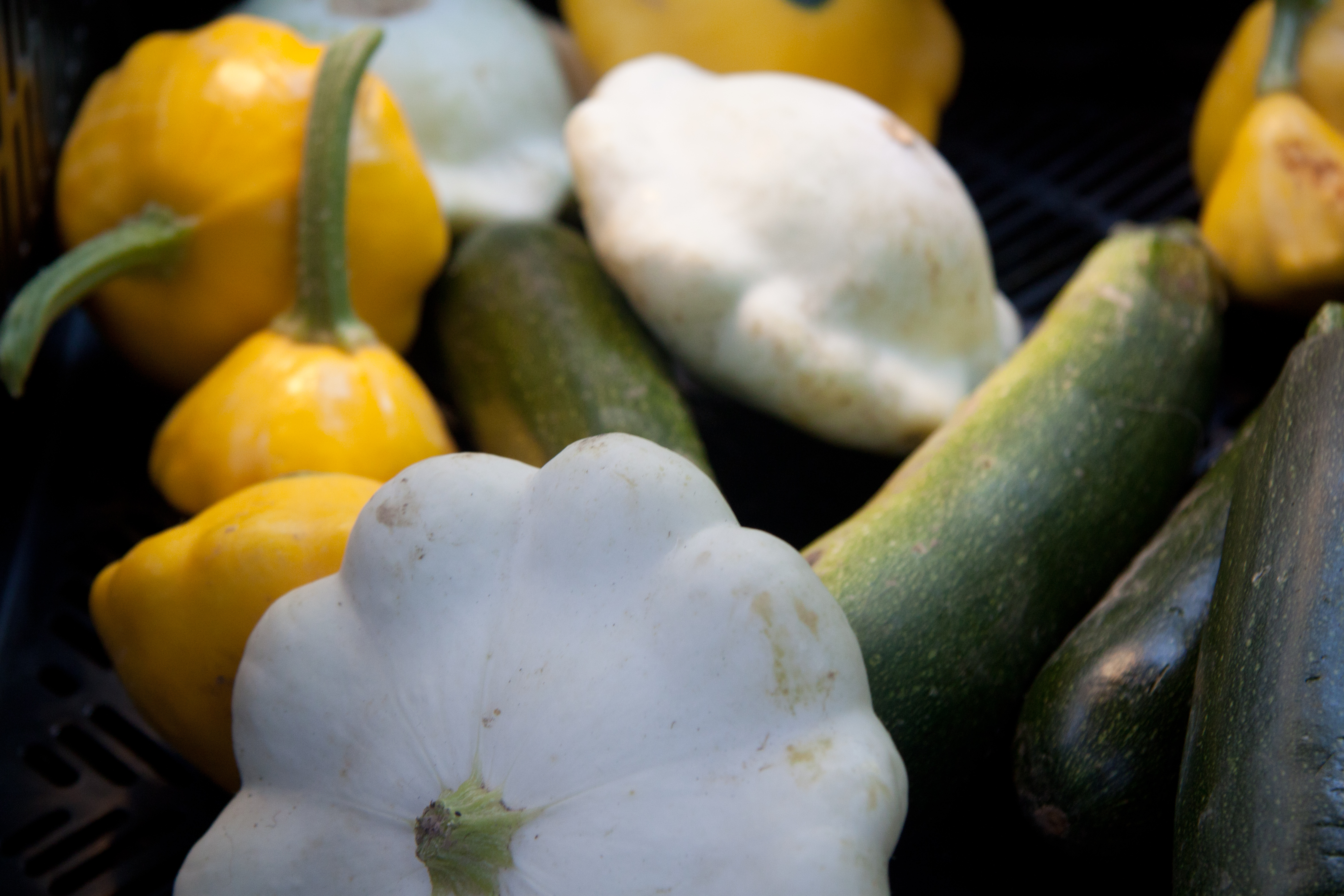 Patty Pan Squash